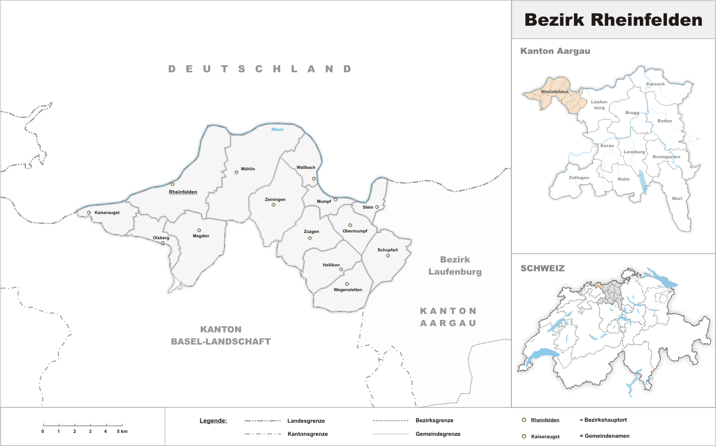 Municipalities in the district of Rheinfelden